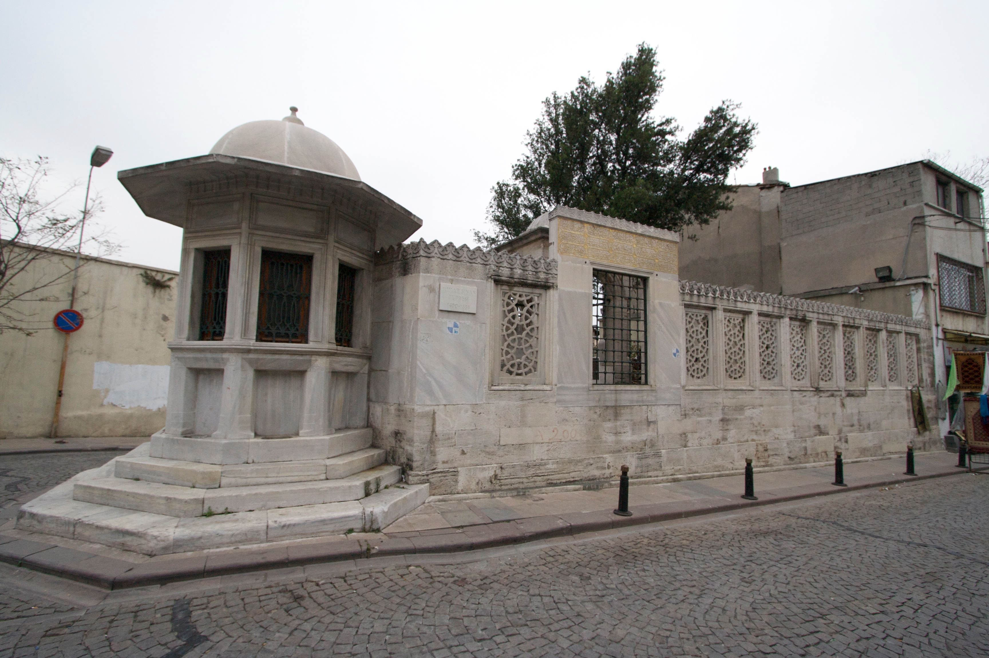 Mimar Sinan's tomb in Fatih/İstanbul